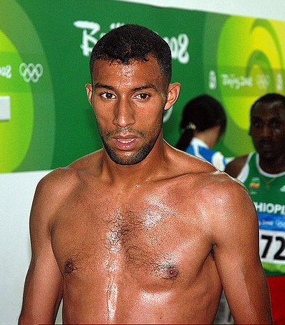 Moroccan runner Youssef Baba catches his breath after finishing tenth out of 12 runners in the men's 1,500m eliminations.